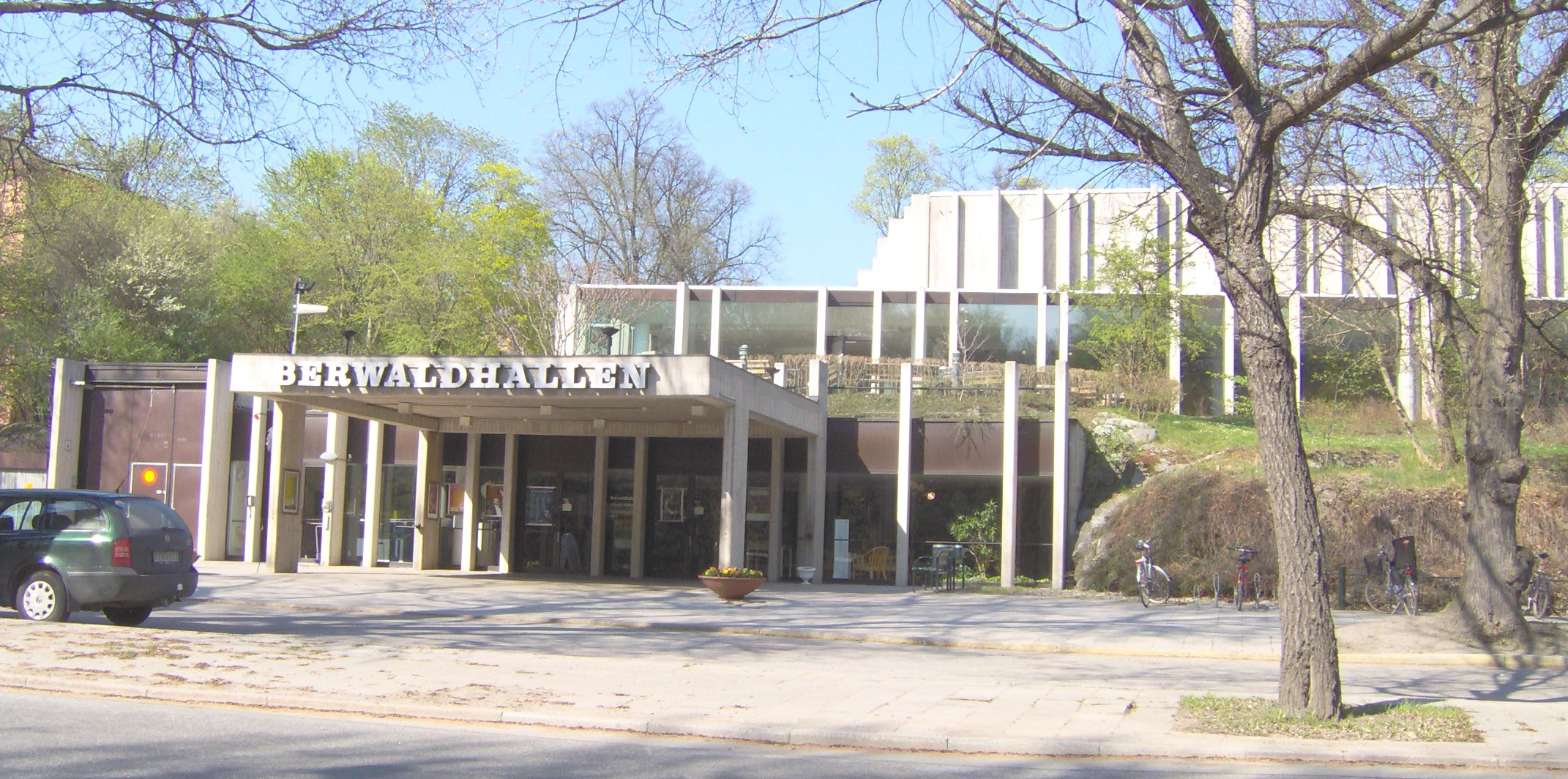 Berwaldhallen, cocert hall, partly buily in a rock, Stockholm Sweden.